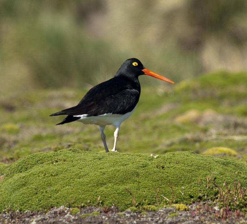 Haematopus leucopodus, Falkland Islands